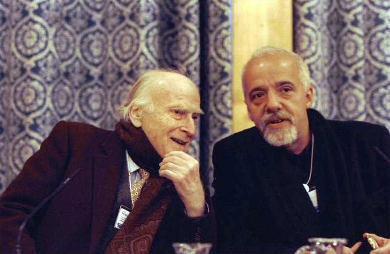 Yehudi Menuhin & Paulo Coelho Violinist Yehudi Menuhin and author Paulo Coelho captured at the Annual Meeting 1999 of the World Economic Forum held in Davos, Switzerland (28.-31. January).